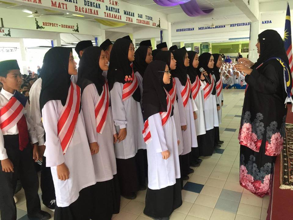 persembahan koir pelajar 2 KAA